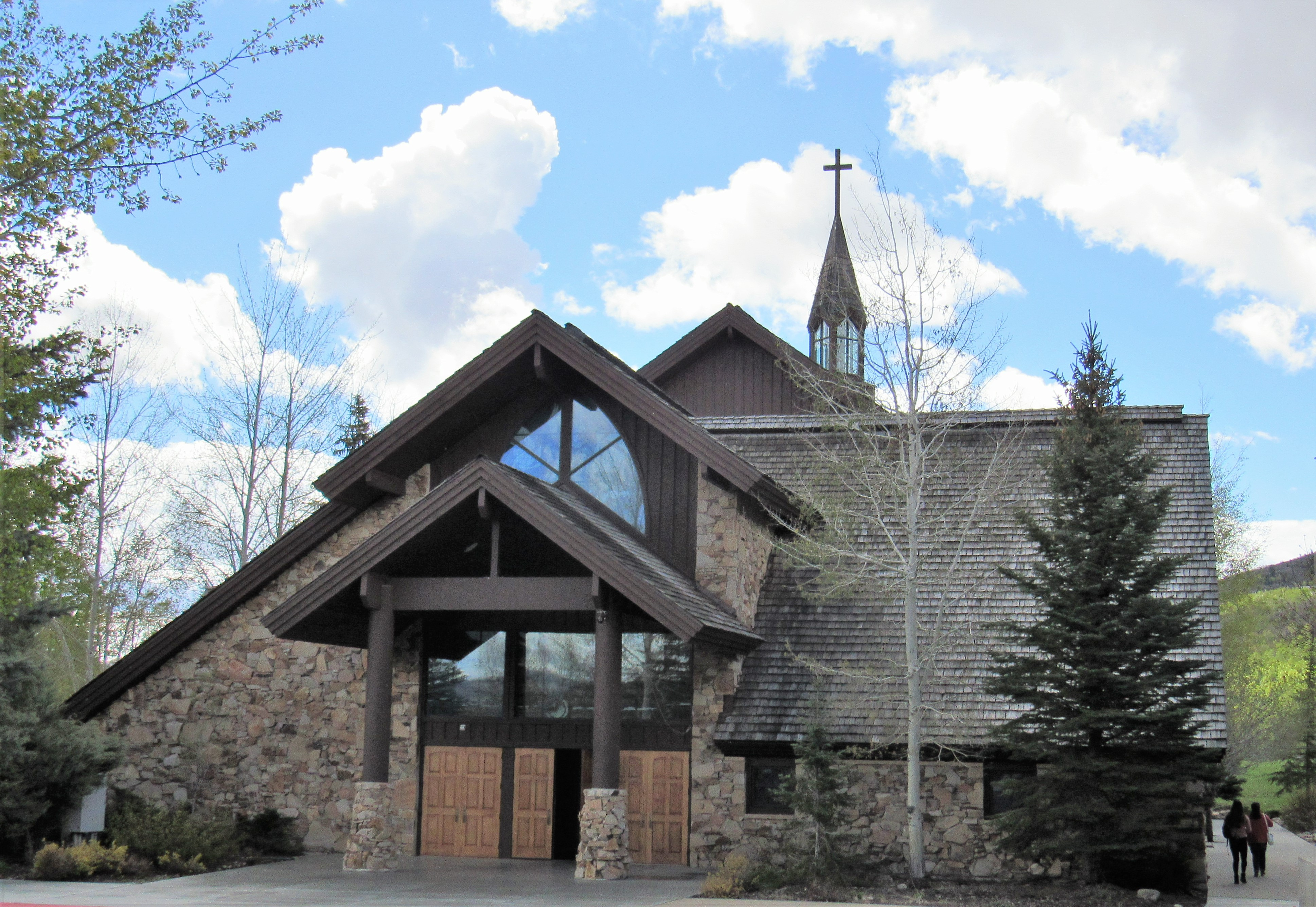 St. Mary of the Assumption Church in Park City, Utah.